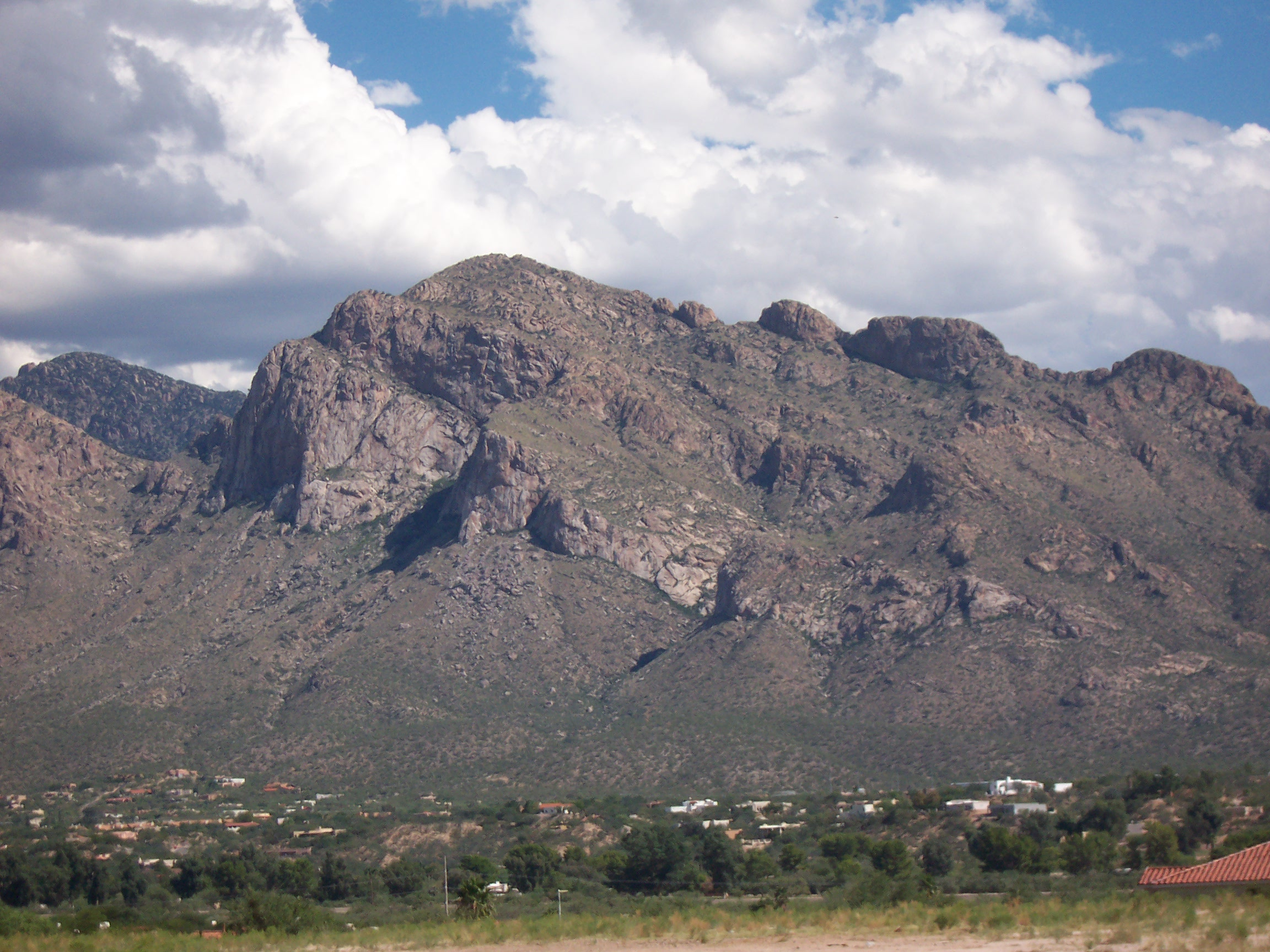 View of Pusch Ridge in the Santa Catalina Mountains from Oro Valley, Arizona. Photo by Dan Huff